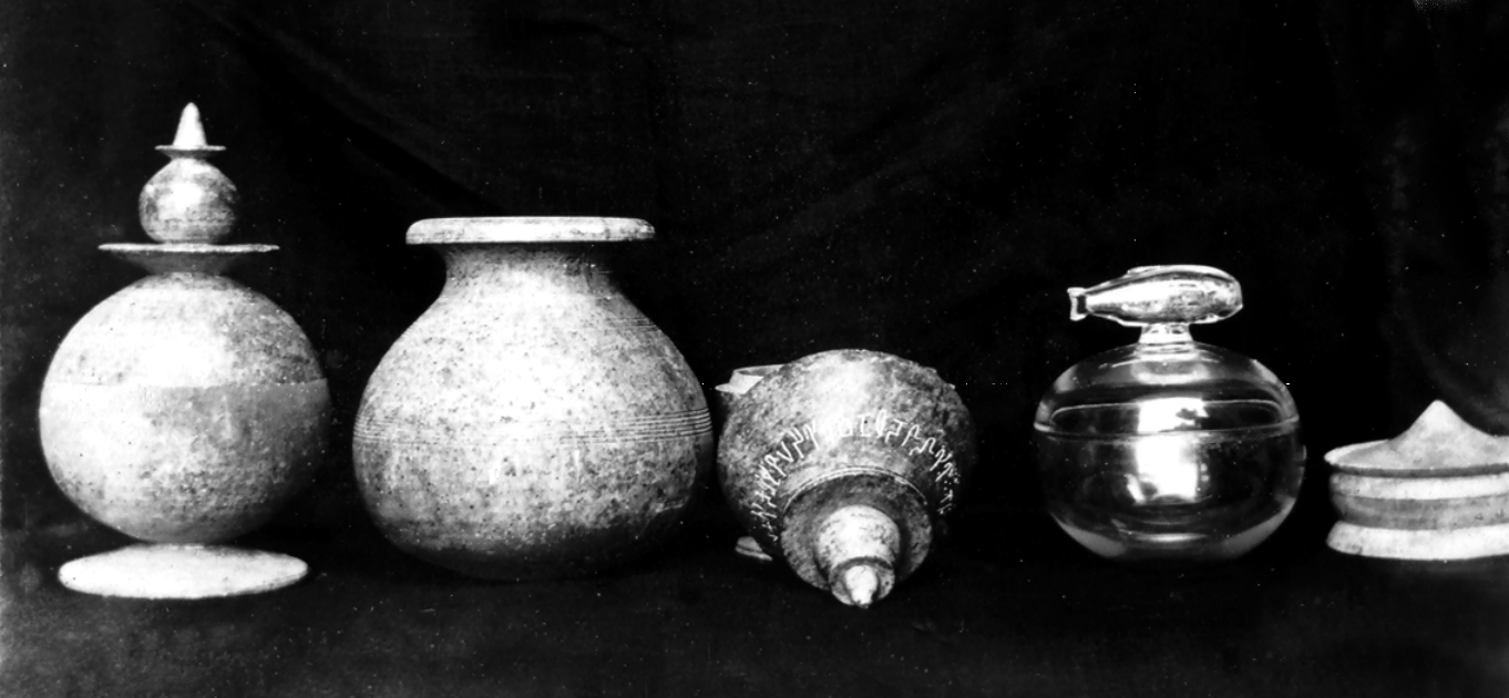 Piprawa five reliquaries